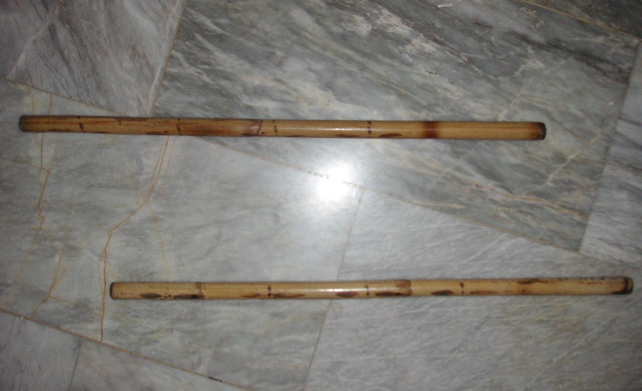 A pair of rotten sticks used in arnis (stick fighting).